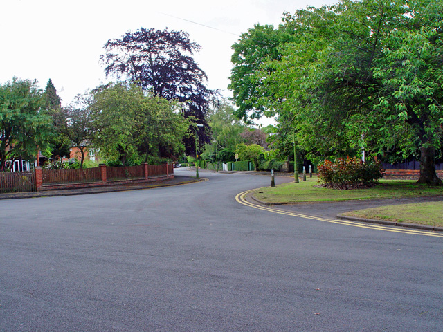 Newland Park A delightful leafy suburb of north Hull.